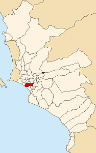 Map of Lima highlighting the San Isidro district in Lima.